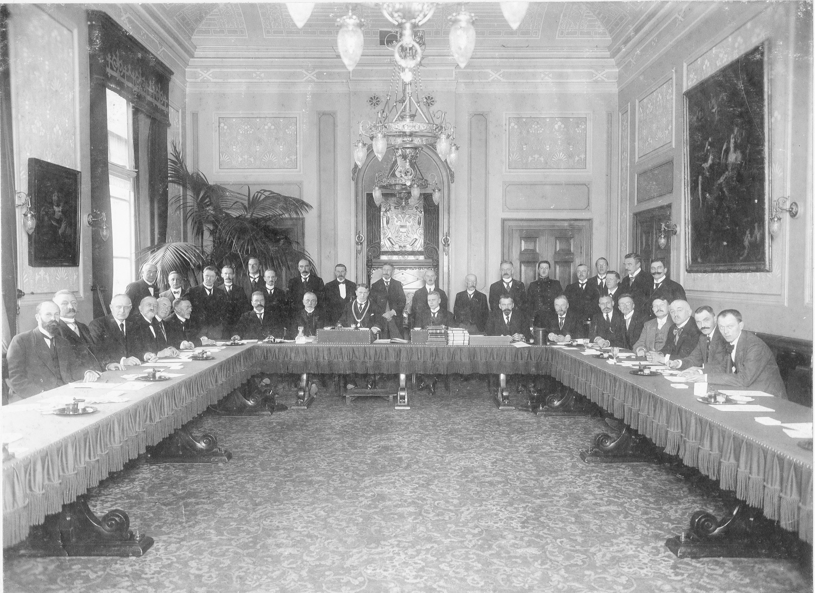 Mayor of Groningen installation